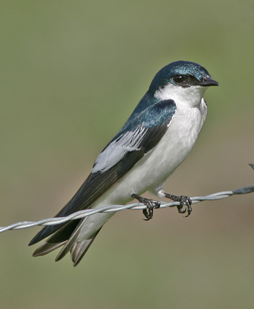 White-winged Swallow, shot at Los Llanos, Venezuela